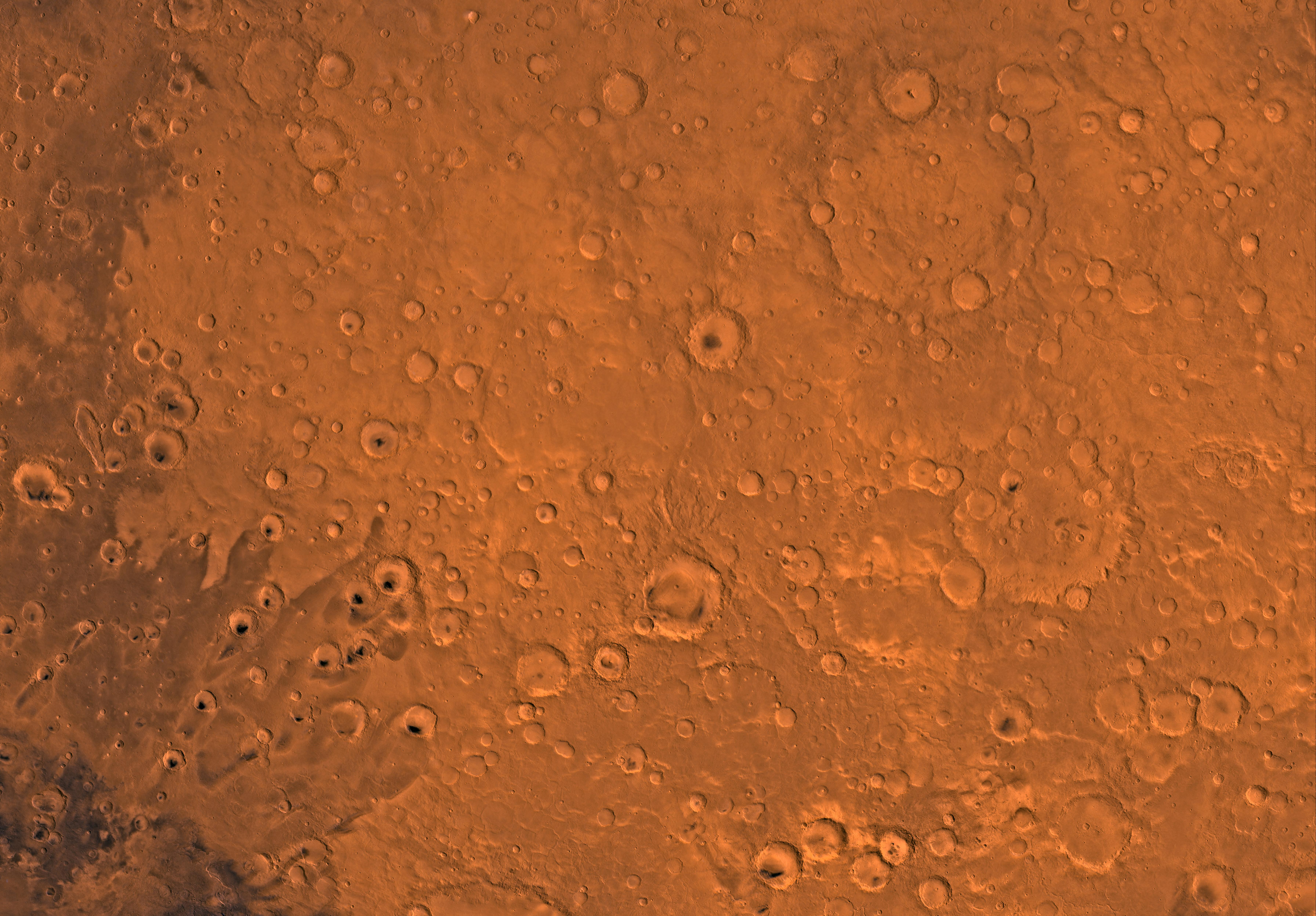 PIA00172: MC-12 Arabia Region Mars digital-image mosaic merged with color of the MC-12 quadrangle, Arabia region of Mars. Heavily cratered highlands dominate the Arabia quadrangle. The northeastern part is marked by a large impact crater, Cassini. Cassini is an ancient remnant of the many large impact events that occurred during the period of heavy bombardment. Latitude range 0 to 30 degrees, longitude range -45 to 0 degrees.